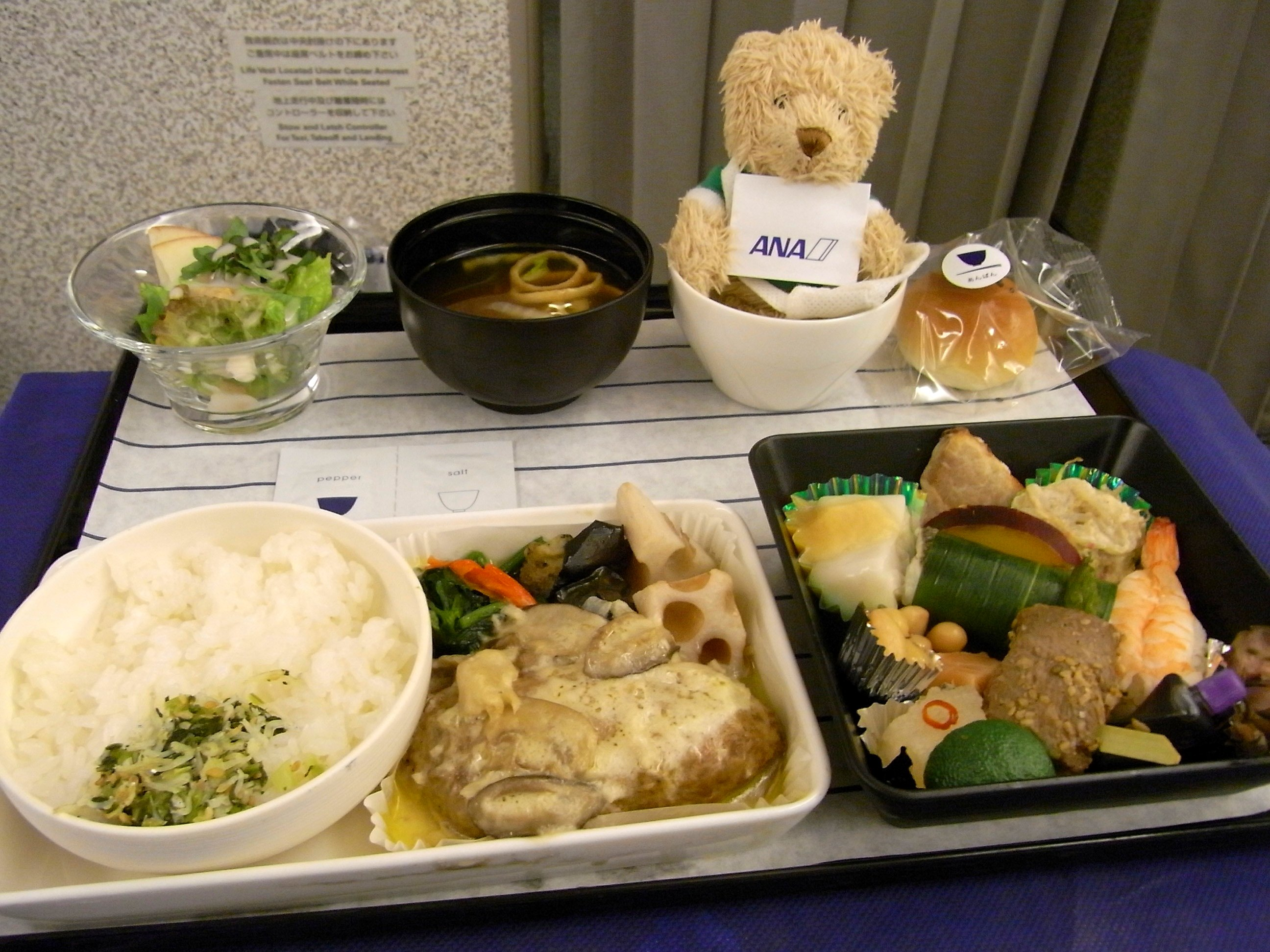 inflight business class meal - NH921 NRT-PVG - Club ANA 10月for October 款待頭盤Appetizer treats 蝦壽司 Prawn nigiri-zhshi 竹葉卷梭魚壽司 Japanese barracuda sasa-zushi 西京風味烤鮭魚 Sweet miso-cured salmon 味增風味煮豬肉 Miso-braised pork 朝鮮風味芝麻拌豆芽 Bean sprout namuru salad 溫馨主菜Mellow main course 奶油蘑菇漢堡 Beef and pork burger steak with rich mushroom sauce 小魚山菜飯 Steamed rice with baby fish and salt-pickled nozawana greens 沙拉Salad 蘋果核桃乳酪沙拉 Apple and walnut salad with Gorgonzola accent 湯品Soup 味增湯 Miso soup 甜品Dessert 黑芝麻餡麵包 Sweet black sesame jam bun